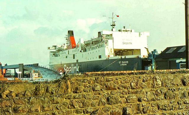 Larne harbour (1984) Two points of interest in this shot of Larne harbour in 1984. The “Sealink” ferry “St David”, relieving on the Stranraer run, is in pre-privatisation livery and the space behind the wall is now occupied by the terminal building.